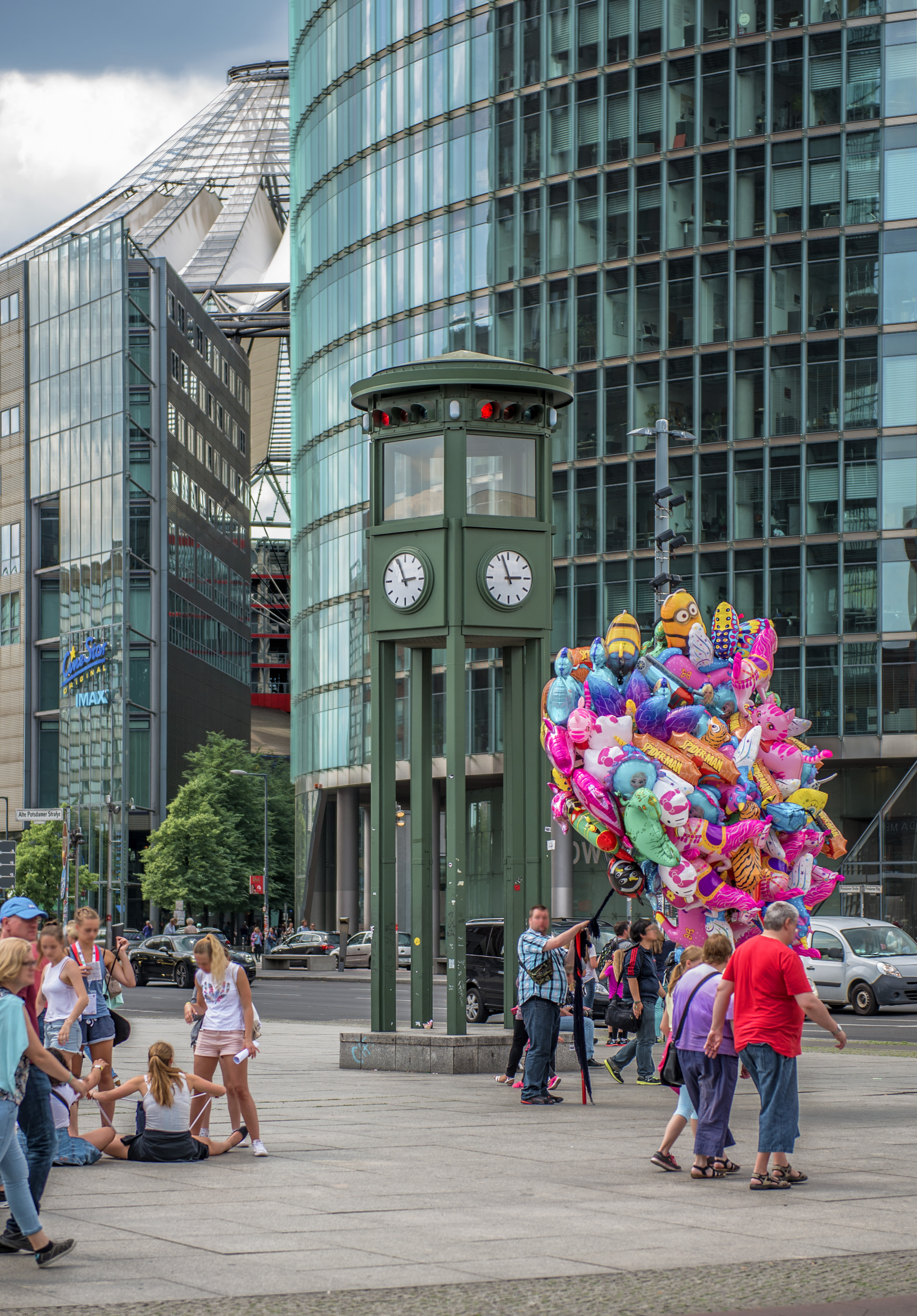 Berlin Potsdamer Platz - the traffic light tower